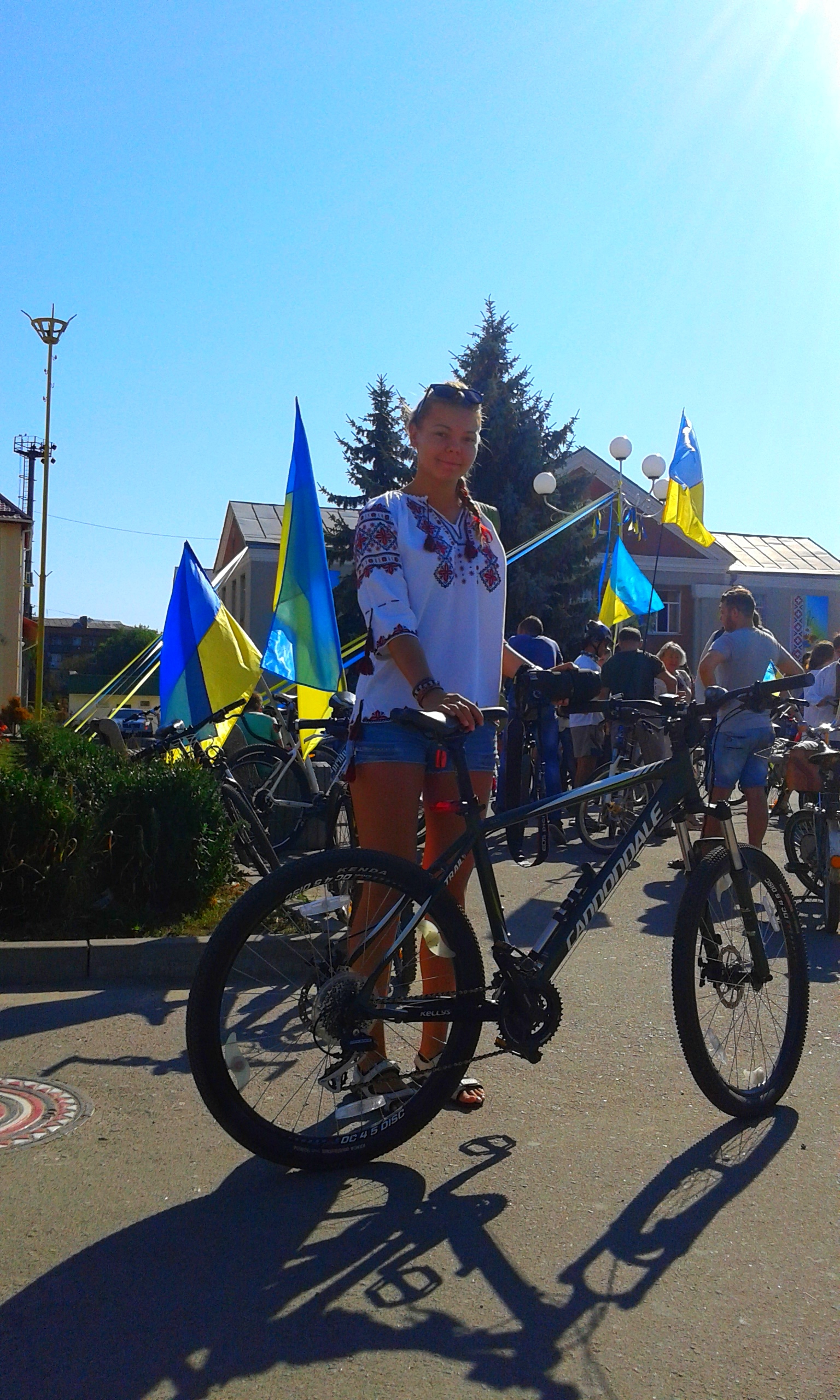 (01) WIKIPEDIA BICYCLE ECOTOURISM IN TOWN OF BAR, VINNYTSIA REGION, STATE OF UKRAINE 20150824